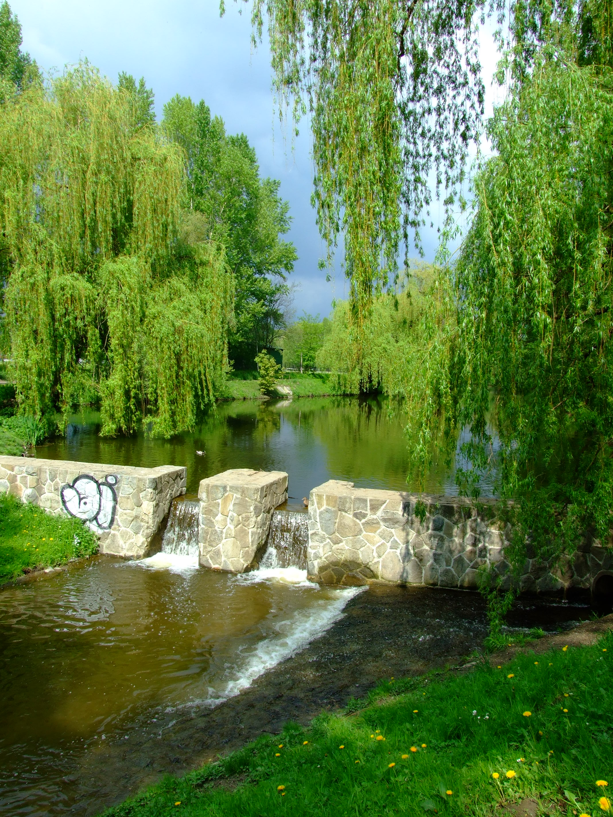 Stromovka park in Prague, CZ